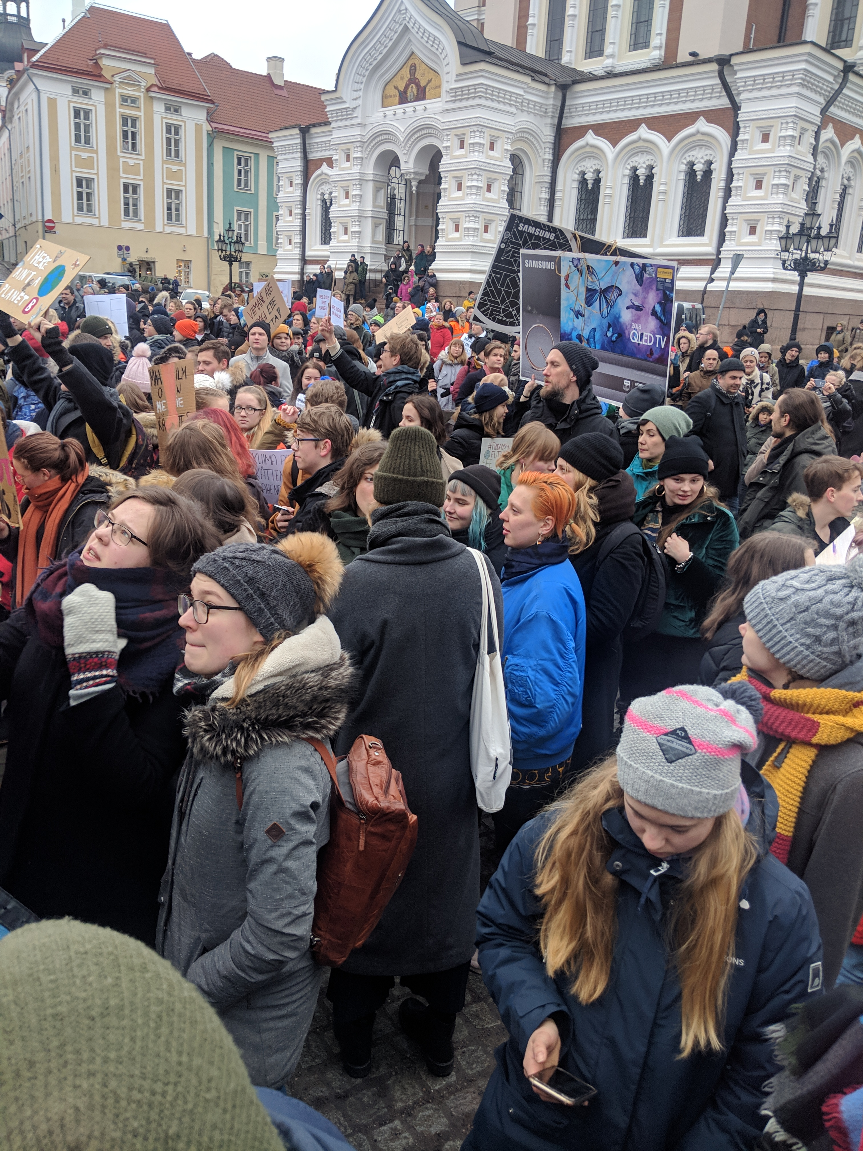 School strike for climate in front of Estonian Parliament in Tallinn, Estonia, on March 15, 2019.